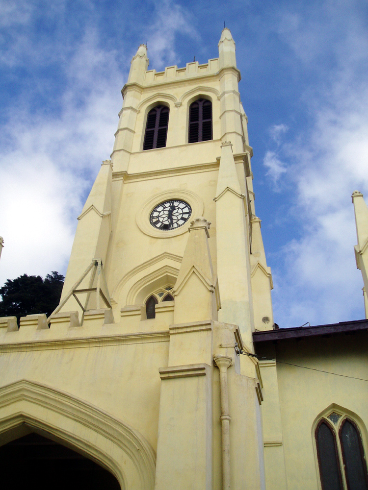 Christ Church in Shimla, Himachal Pradesh, India